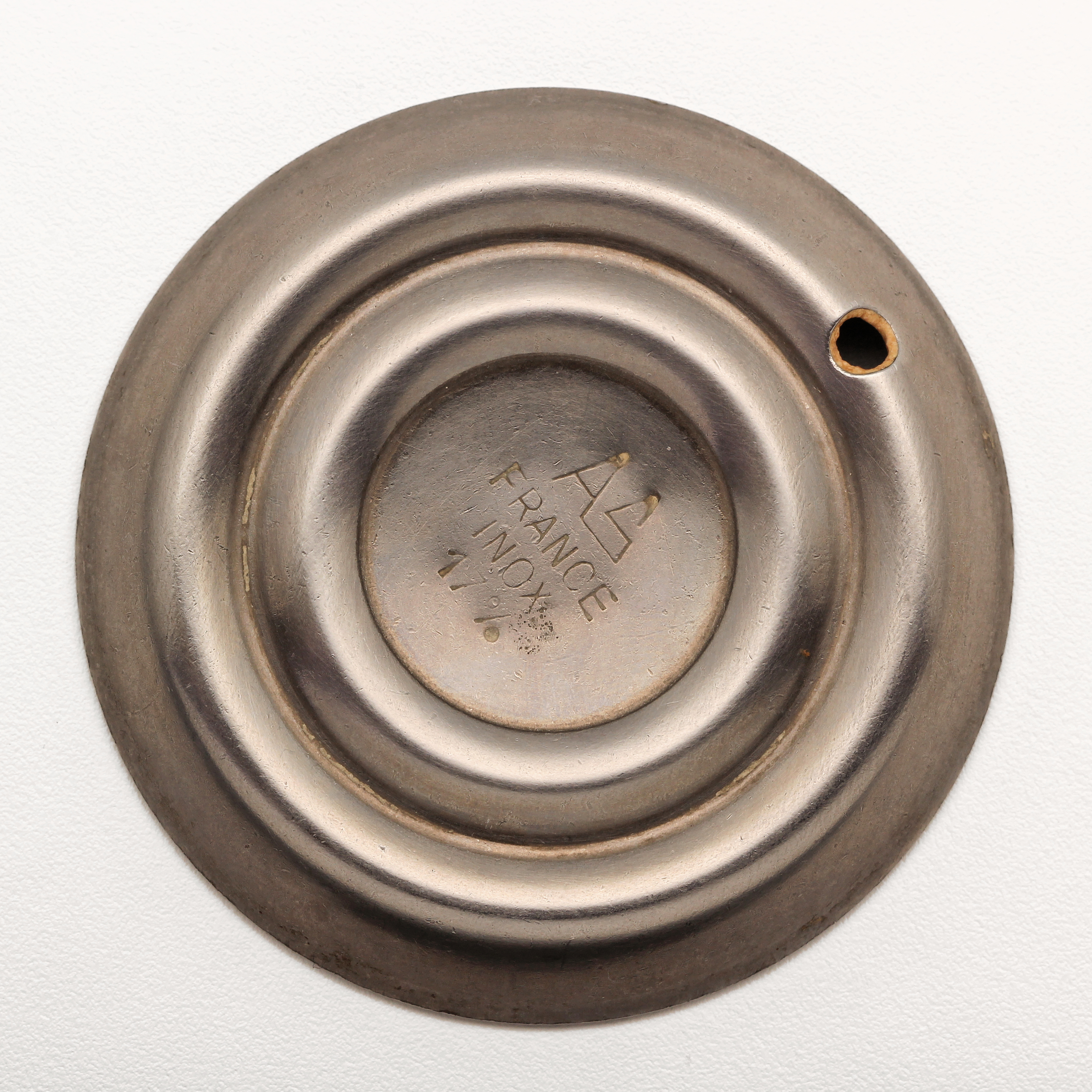 milk watcher